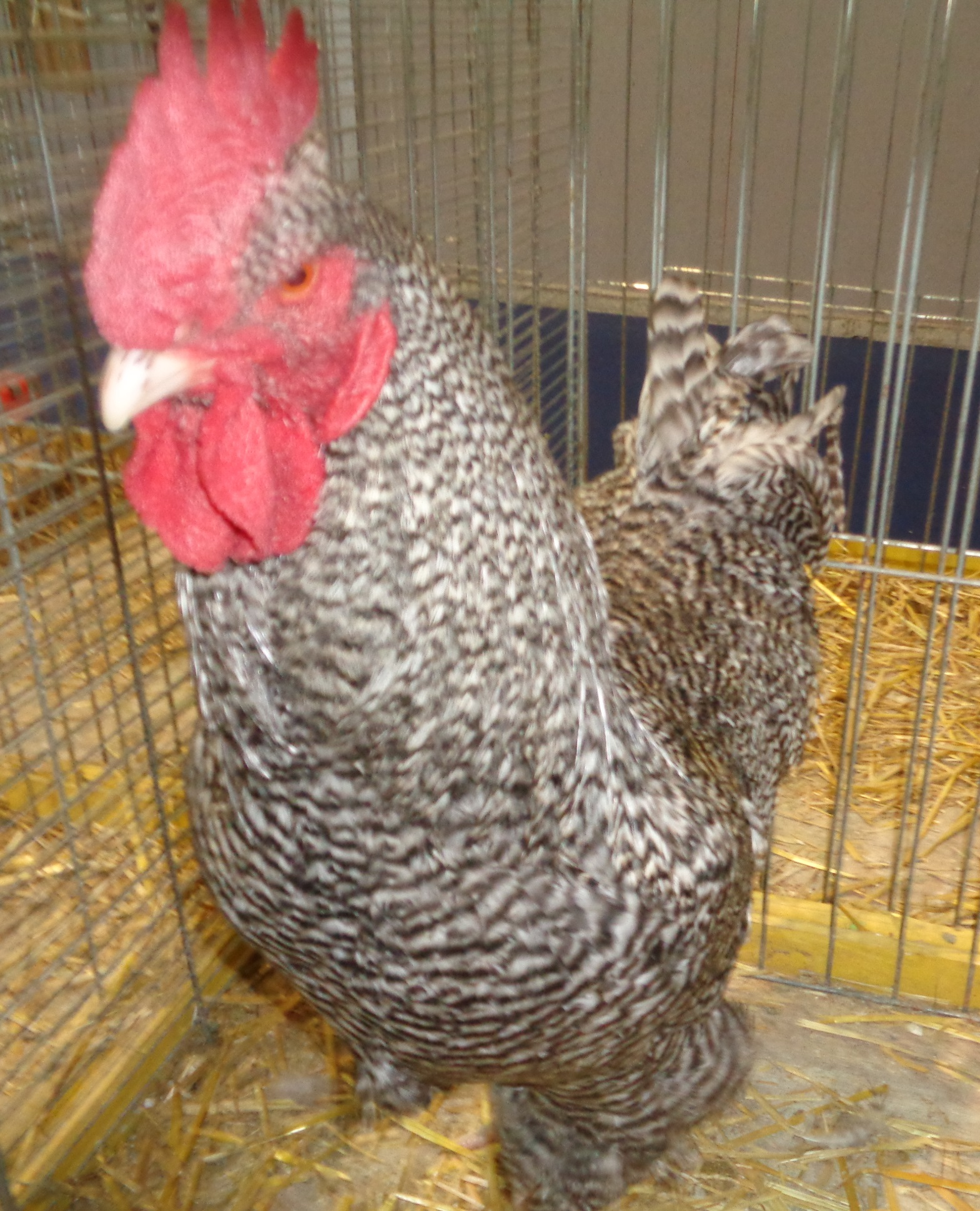 bleu de hollande du nord